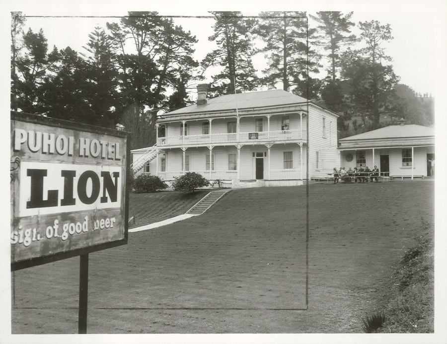 Title: Hotels and Motels - North Island Publicity Caption: Puhoi Hotel, Puhoi Photographer: S. Raynes June 1979, Auckland Archives New Zealand Reference: AAQT 6539 W3537 193 / B17262 For further enquiries Material from Archives New Zealand Te Rua Mahara o te Kāwanatanga